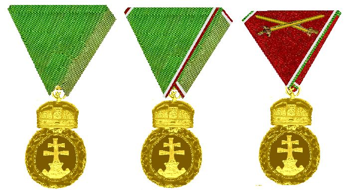 Three Hungarian Signum Ladis 1940